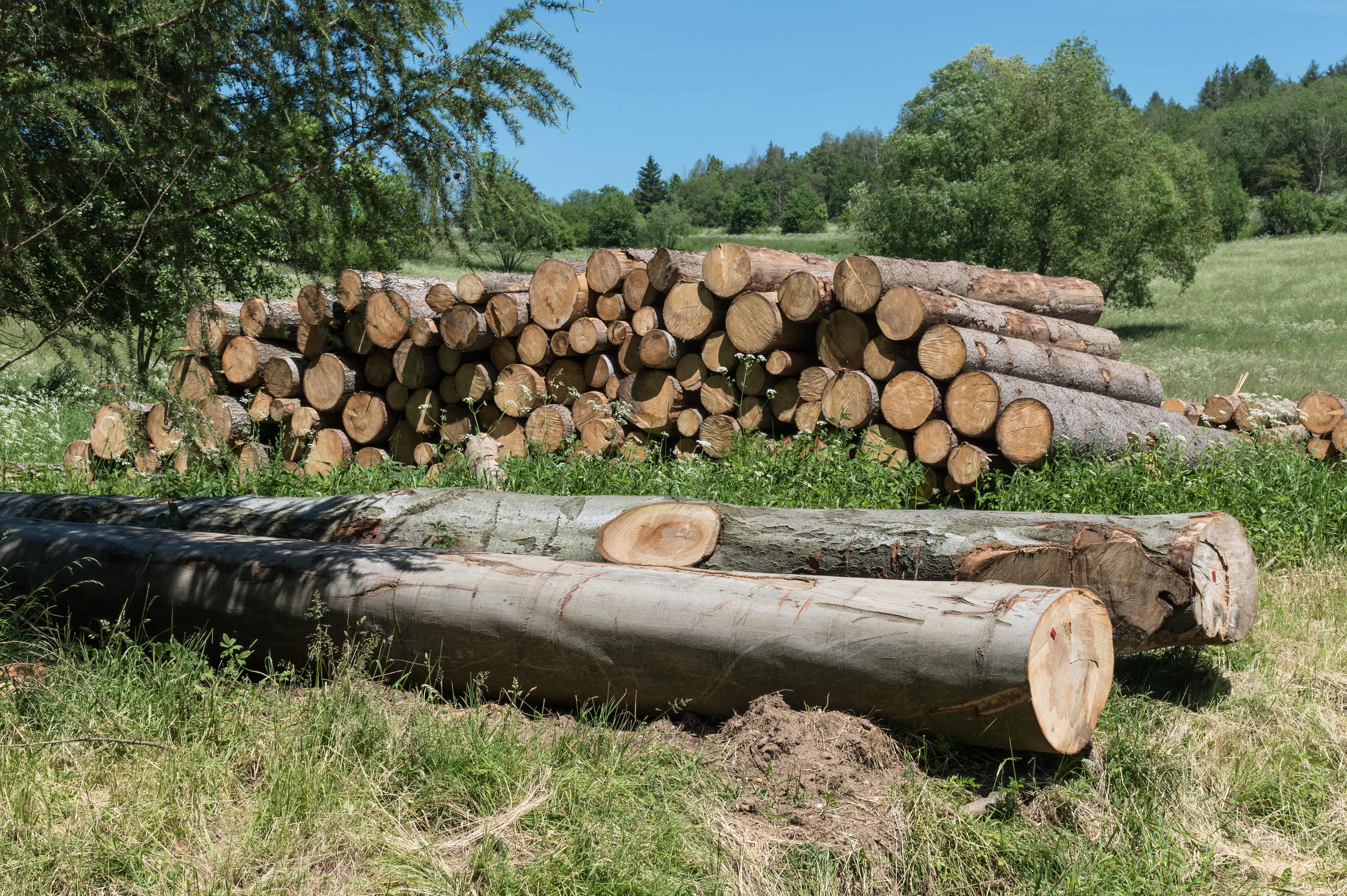 Woodpiles in Romanowo